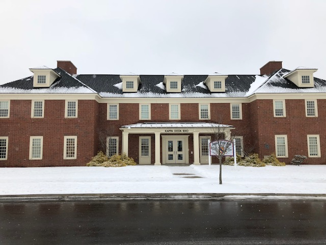 Bucknell University chapter house (Iota Chapter), opened in 2012